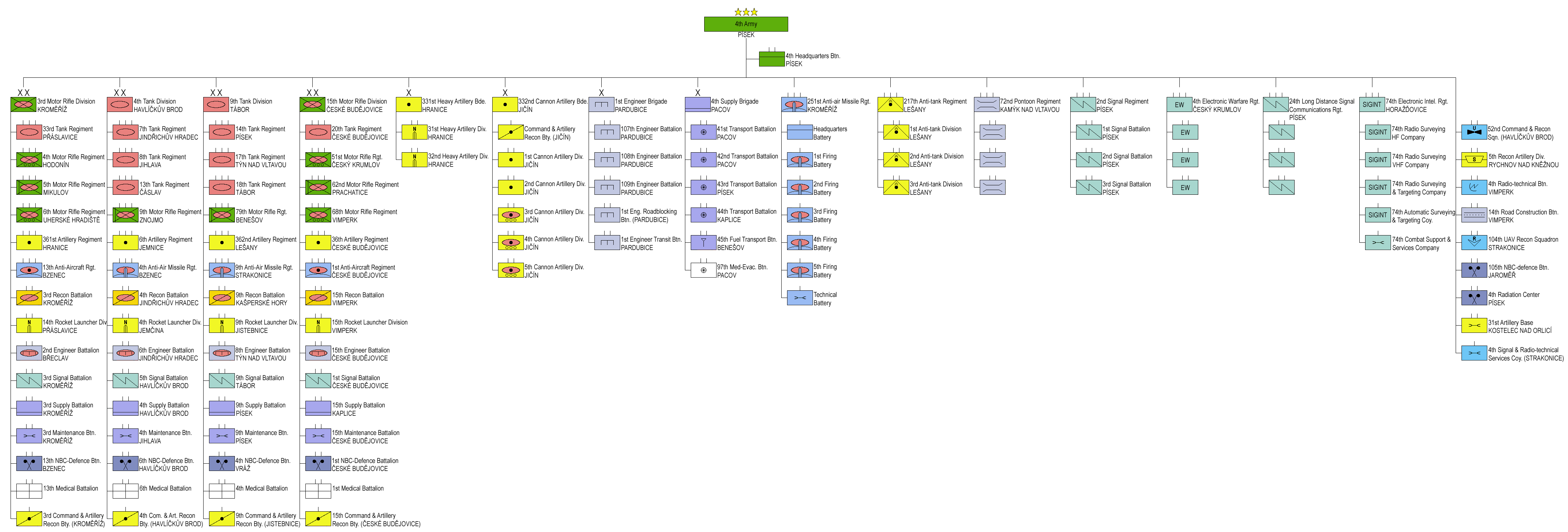 Military of Czechoslovakia: 4th Army Structure in 1989